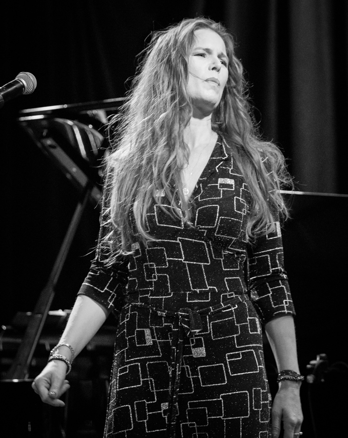 Rebekka Bakken at Victoria Teater. The concert was part of Oslo Jazzfestival and took place on 19. August 2017 in Oslo. Lineup: Rebekka Bakken (vocal), Børge Petersen-Øverleir (guitar), Jonny Sjo (bass guitar) and Rune Arnesen (drums).